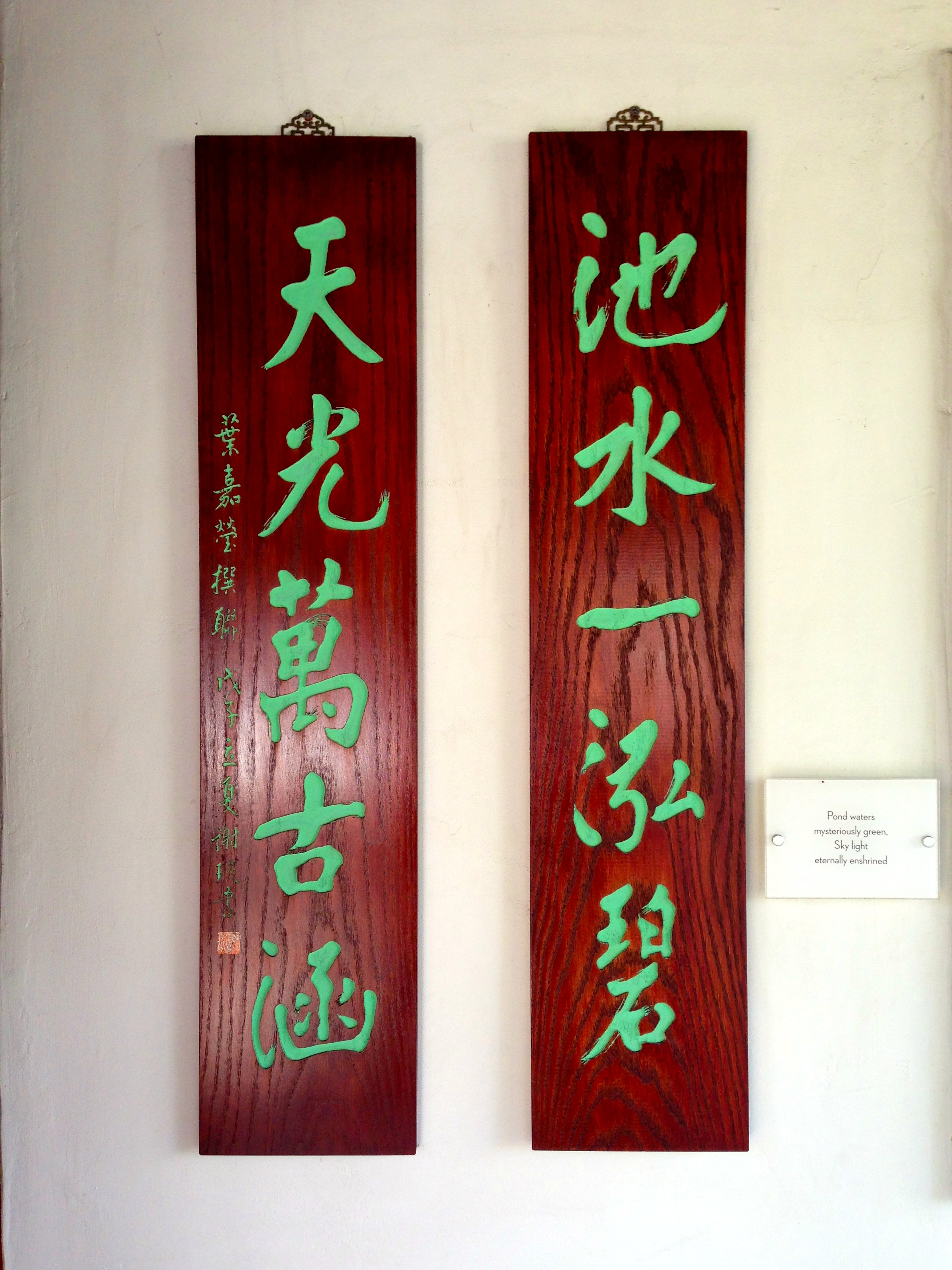 Poem of Chia-ying Yeh in Dr. Sun Yat-Sen Classical Chinese Garden, Vancouver, BC.